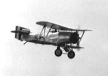 photo originally taken by a British government employee; image found on